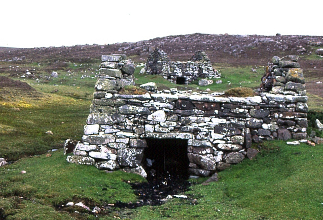 Meal mills, Papa Stour, Shetland, Scotland